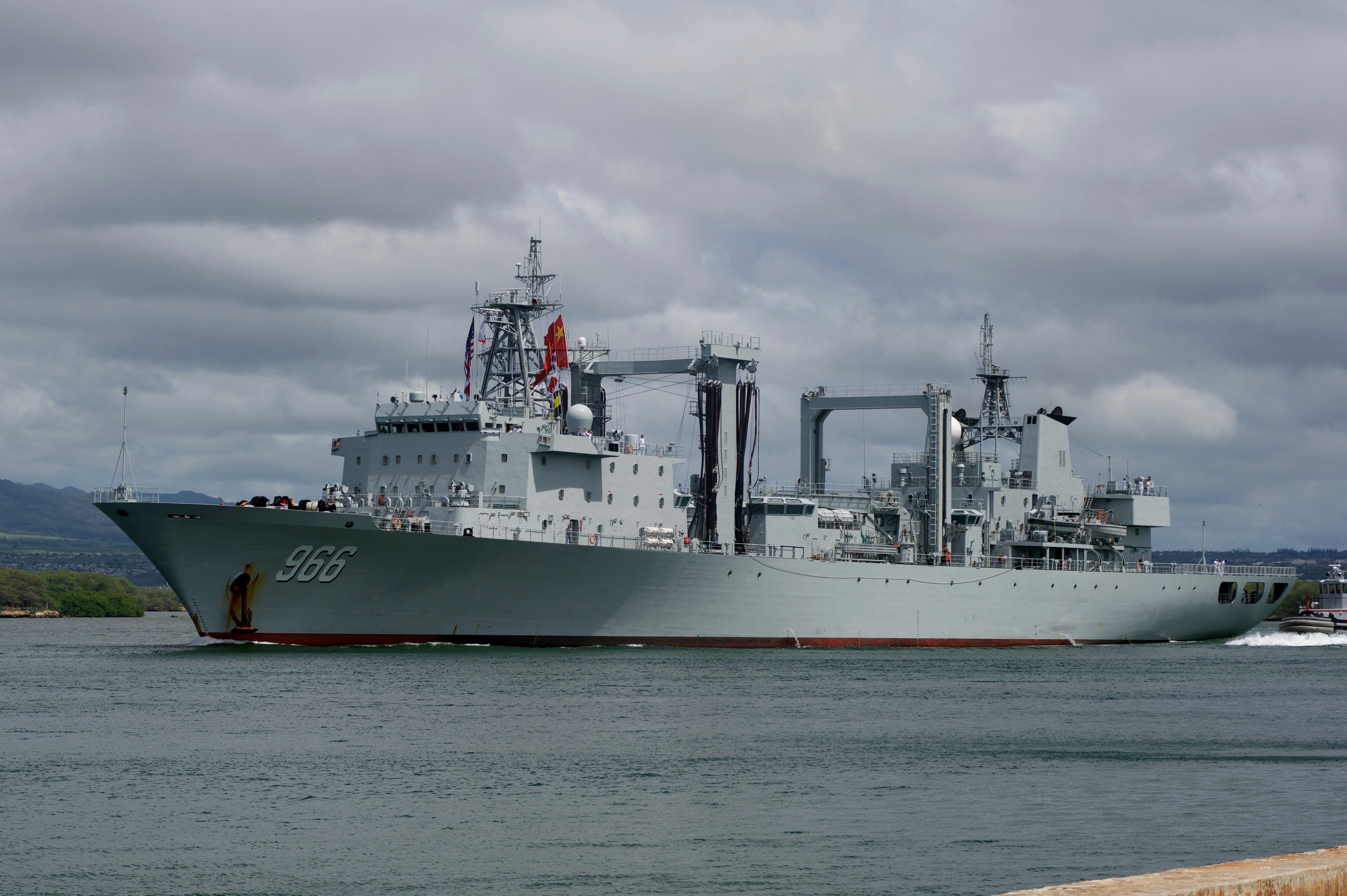 160805-N-AI605-081 PEARL HARBOR (AUG 5, 2016) Chinese Navy replenishment ship Gaoyouhu (996) departs Joint Base Pearl Harbor-Hickam following the conclusion of Rim of the Pacific 2016. Twenty-six nations, more than 40 ships and submarines, more than 200 aircraft and 25,000 personnel participated in RIMPAC from June 30 to Aug. 4, in and around the Hawaiian Islands and Southern California. The world's largest international maritime exercise, RIMPAC provides a unique training opportunity that helps participants foster and sustain the cooperative relationships that are critical to ensuring the safety of sea lanes and security on the world's oceans. RIMPAC 2016 was the 25th exercise in the series that began in 1971. (U.S. Navy Photo By Mass Communication Specialist 1st Class Rebecca Wolfbrandt/RELEASED) Unit: Navy Public Affairs Support Element Detachment Hawaii DVIDS Tags: Germany; United Kingdom; Pearl Harbor; Indonesia; Japan; Italy; Canada; United States; France; Netherlands; Australia; Hickam; Malaysia; foster; Columbia; India; New Zealand; U.S. Marine Corps; Singapore; Mexico; Denmark; Norway; maritime strategy; Thailand; Hawaii; Chile; Soldiers; Sailors; Brazil; Marines; U.S. Air Force; U.S. Army; Peru; Airman; U.S. Navy; Combined Task Force; Joint Base Pearl Harbor; RIMPAC; Rim of the Pacific; Tonga; the Republic of Korea; sustain; People's Republic of China; the Republic of the Philippines; Strengthening partnerships; Largest Maritime Exercise; NPASE Hawaii; cooperative relationships; Rebecca Wolfbrandt; Wolfbrandt